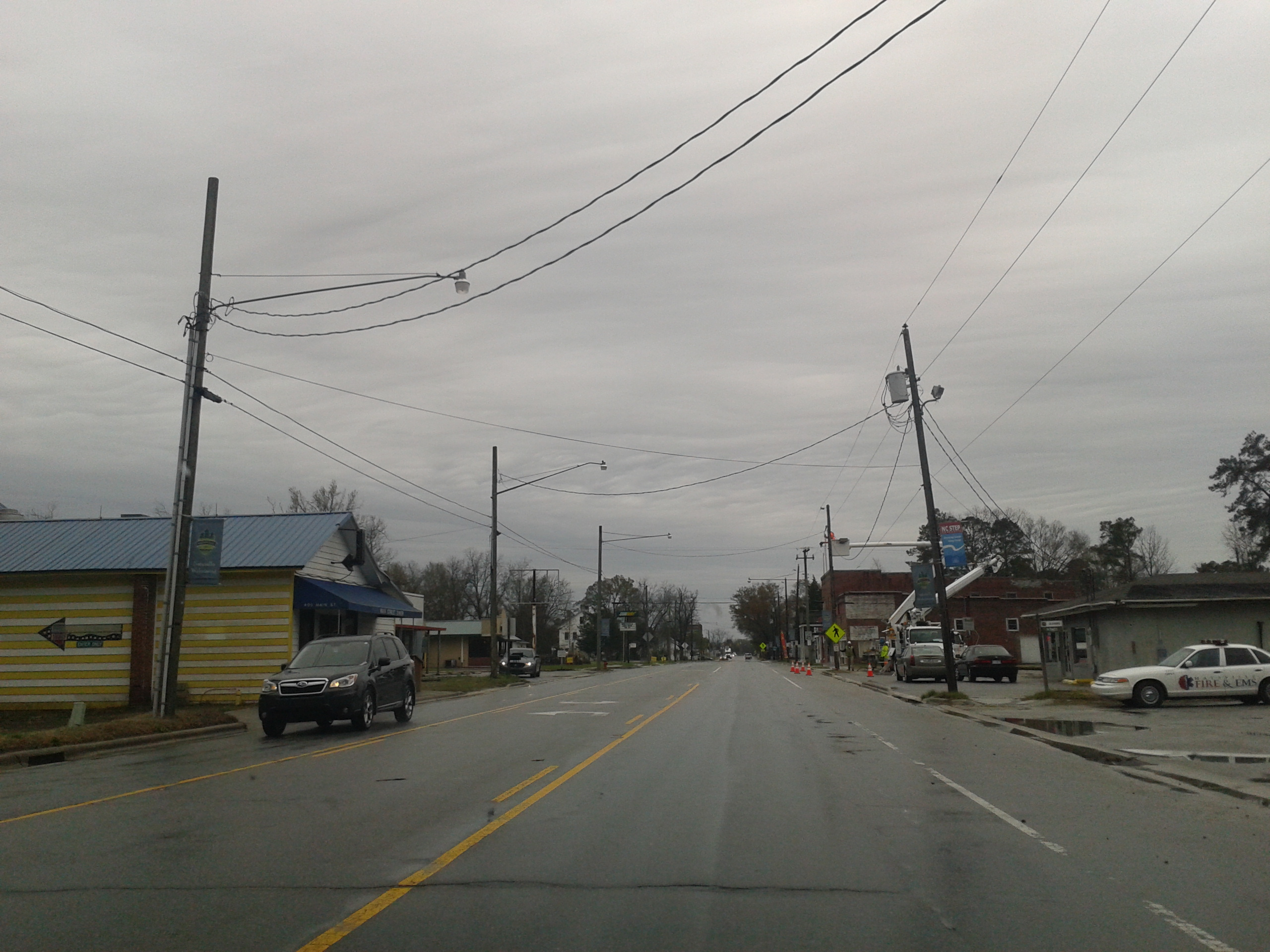 Maysville, North Carolina, taken out of the front window of my car on 03/30/2015.